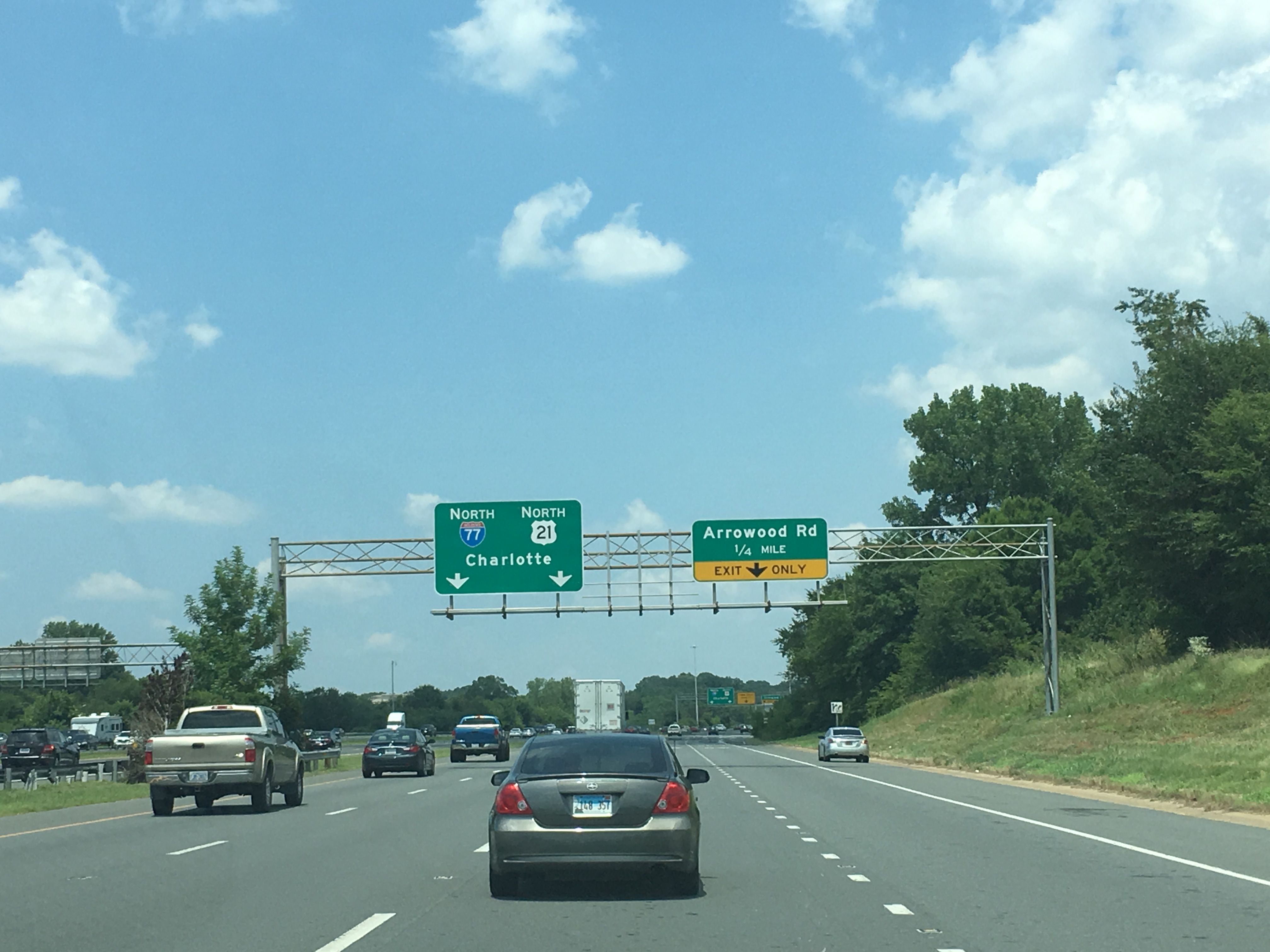 Northbound Interstate 77/U.S. Route 21 1/4 mile to the interchange with Arrowood Road (exit 3) in Charlotte, North Carolina